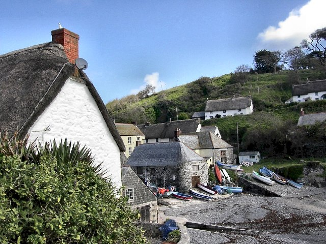 Cadgwith Cove. A view of part of the beach and village